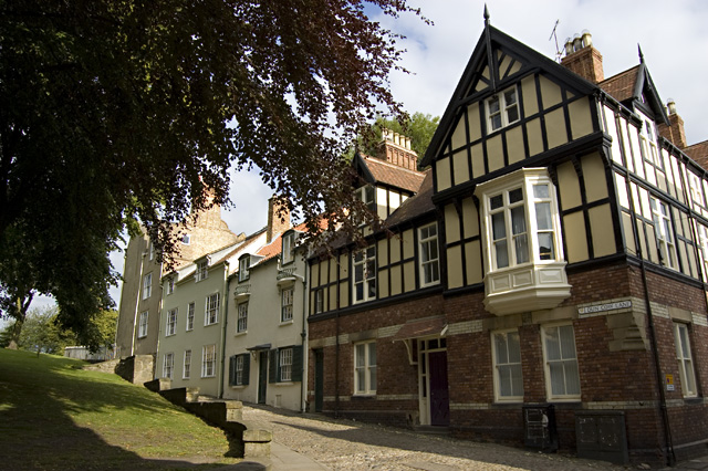 Dun Cow Lane